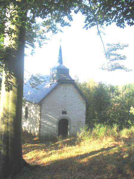 Chapel in Remagne Walon: tchapele Notru-Dame di Lorete a Rmagne.